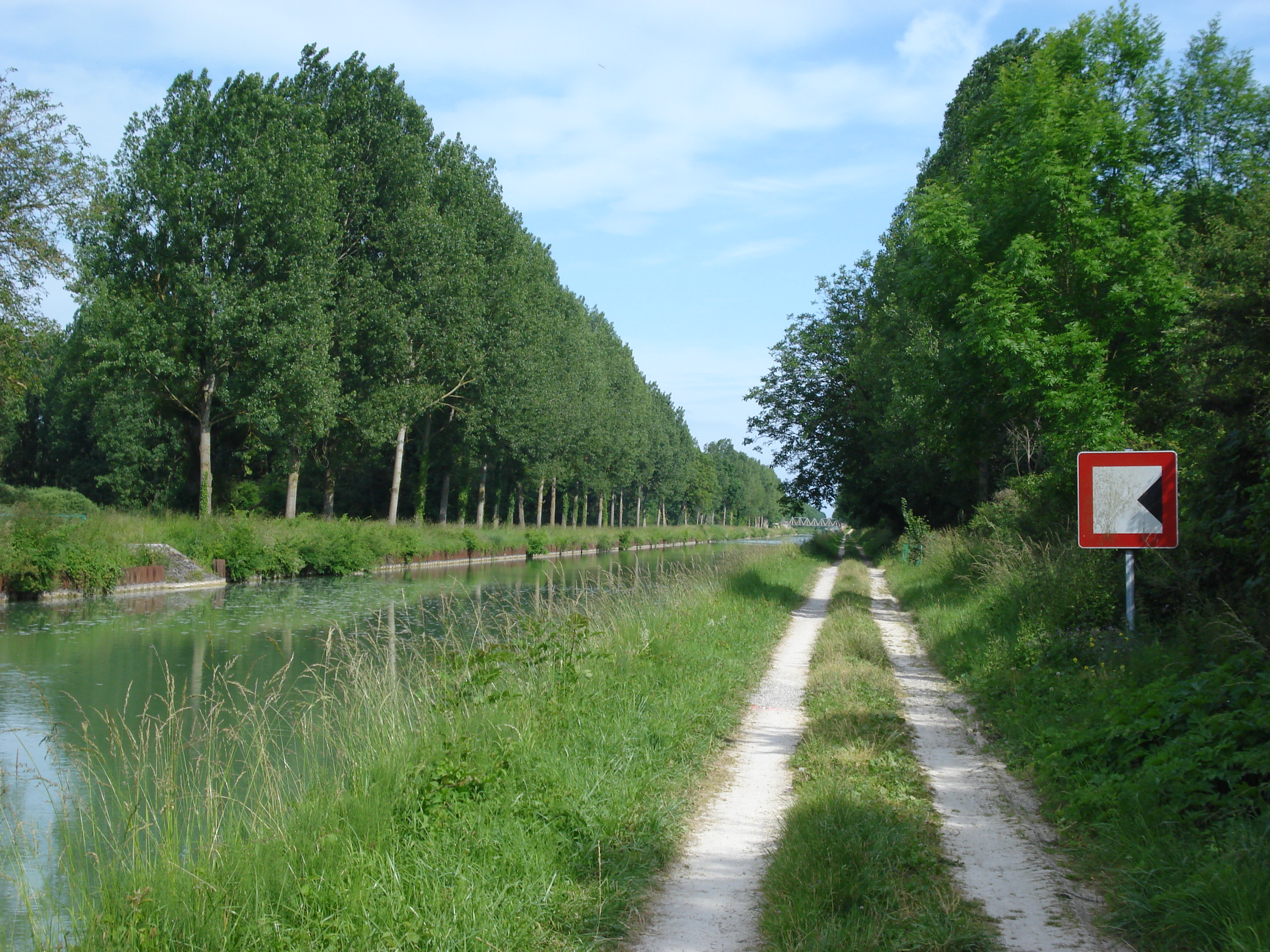 Canal latéral à la Marne à Condé-sur-Marne.